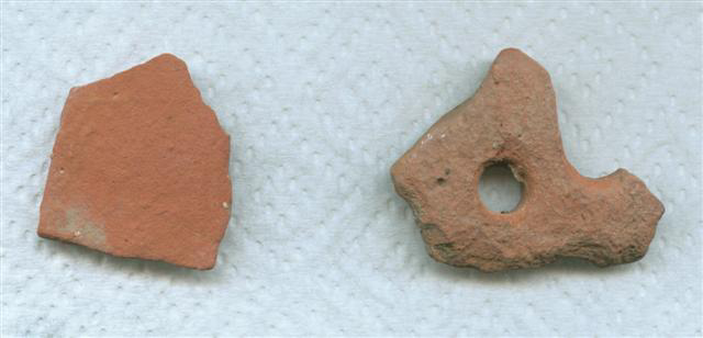 red clay pottery from Lothal (India)